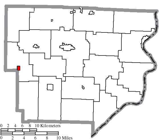 Map of the municipal and township boundaries of Monroe County, Ohio, United States, as of the 2000 census, with the location of the village of Stafford highlighted. Township borders are shown only in unincorporated areas in order to differentiate incorporated and unincorporated areas more clearly.